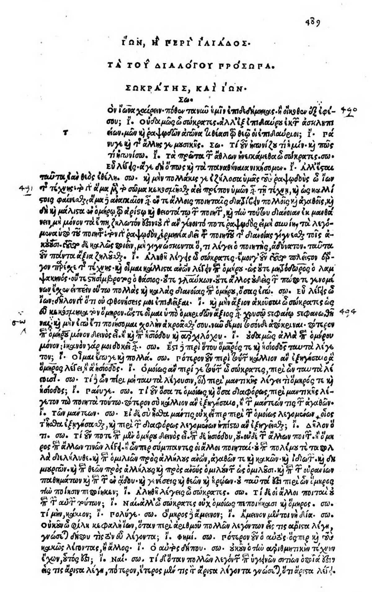 Ion beginning. Editio princeps, Venice 1513.